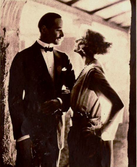 Still for the American silent film Soldiers of Fortune (1919), page 25 of the October 1919 Shadowland. Norman Kerry and Anna Q. Nilsson.